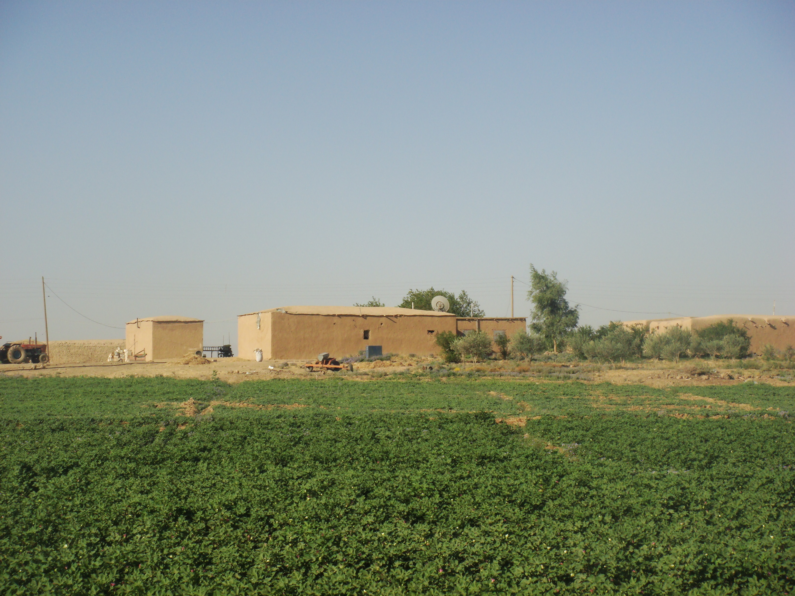 Village in Al-Hasakah Syria